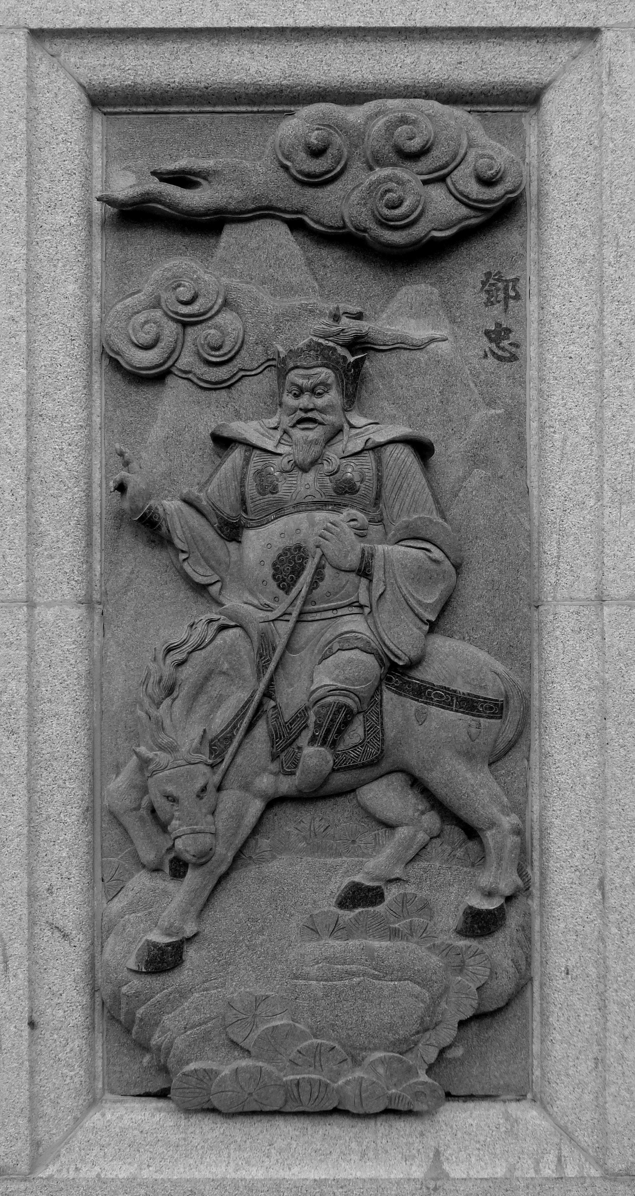 083 Deng Zhong, Investiture of the Gods at Ping Sien Si, Pasir Panjang, Perak, Malaysia Photograph from the Ping Sien Si Temple in Perak, Malaysia taken by Anandajoti.